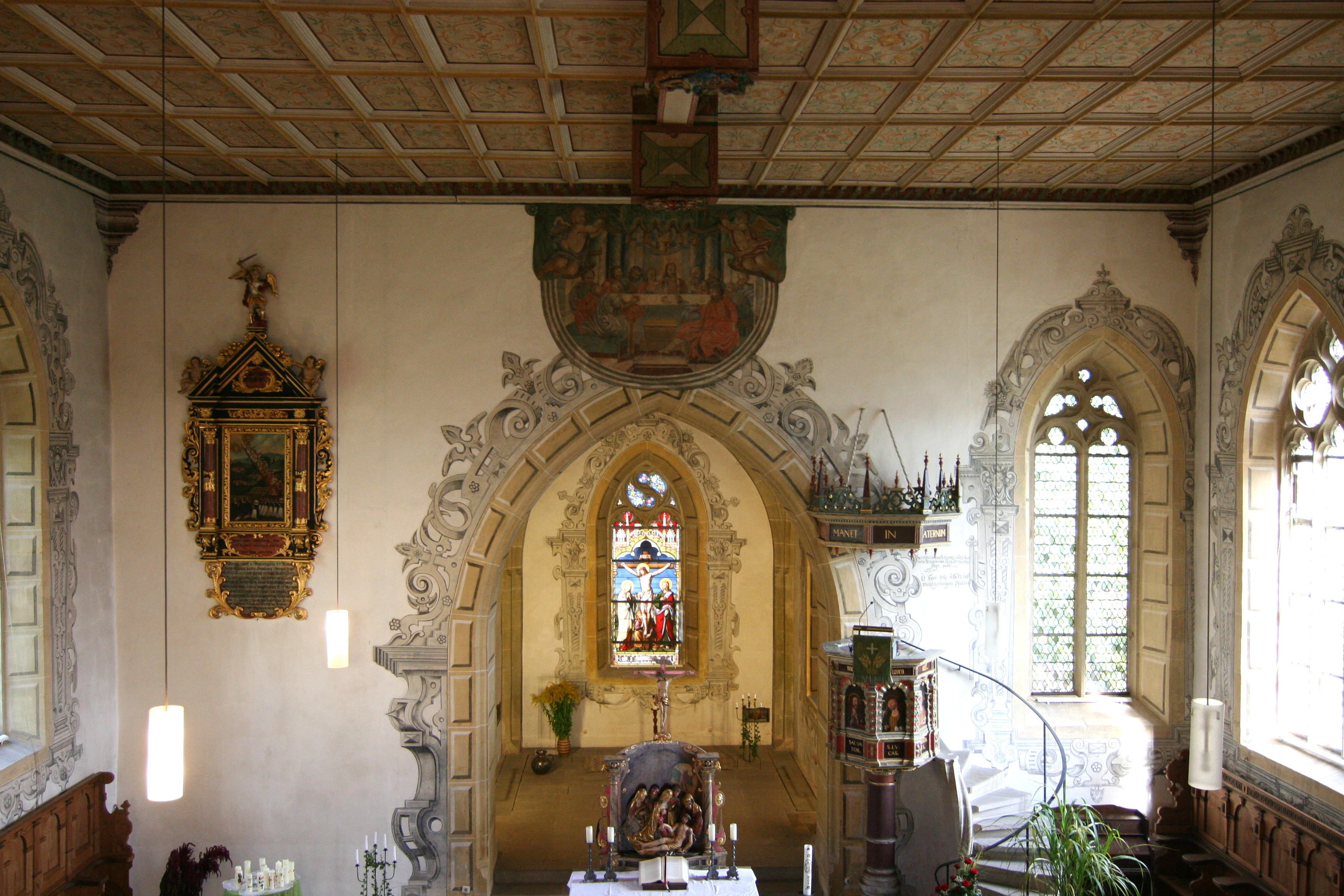 The Kilian church in Obersulm-Sülzbach inside